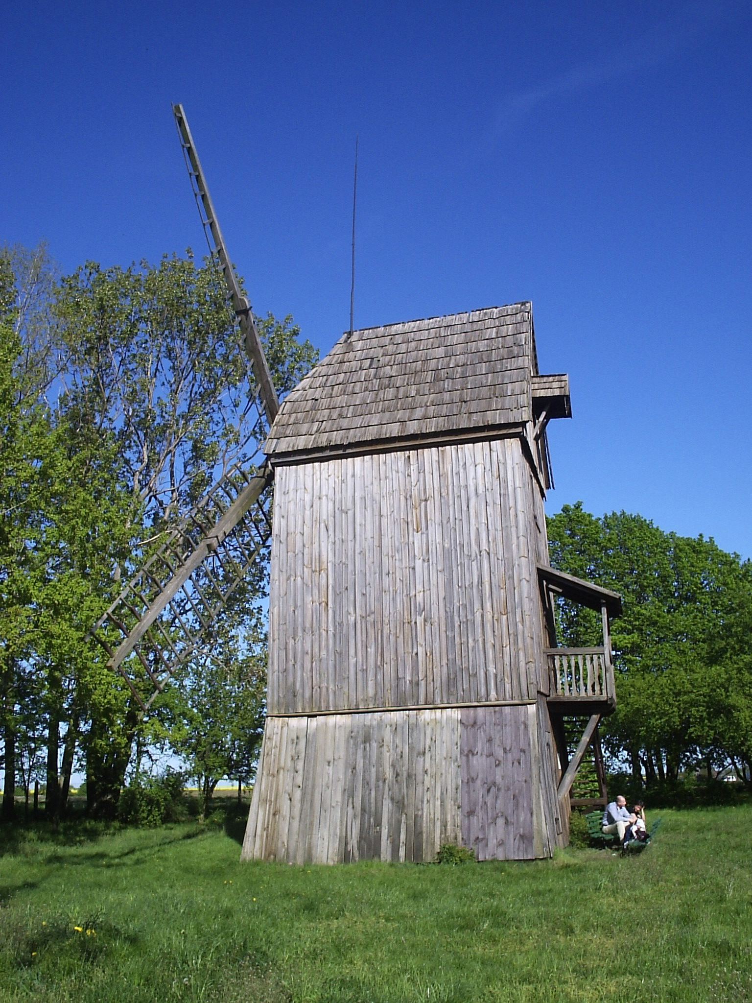 Post mill in Dziekanowice Ethnographic Park (ex Gryżyna)